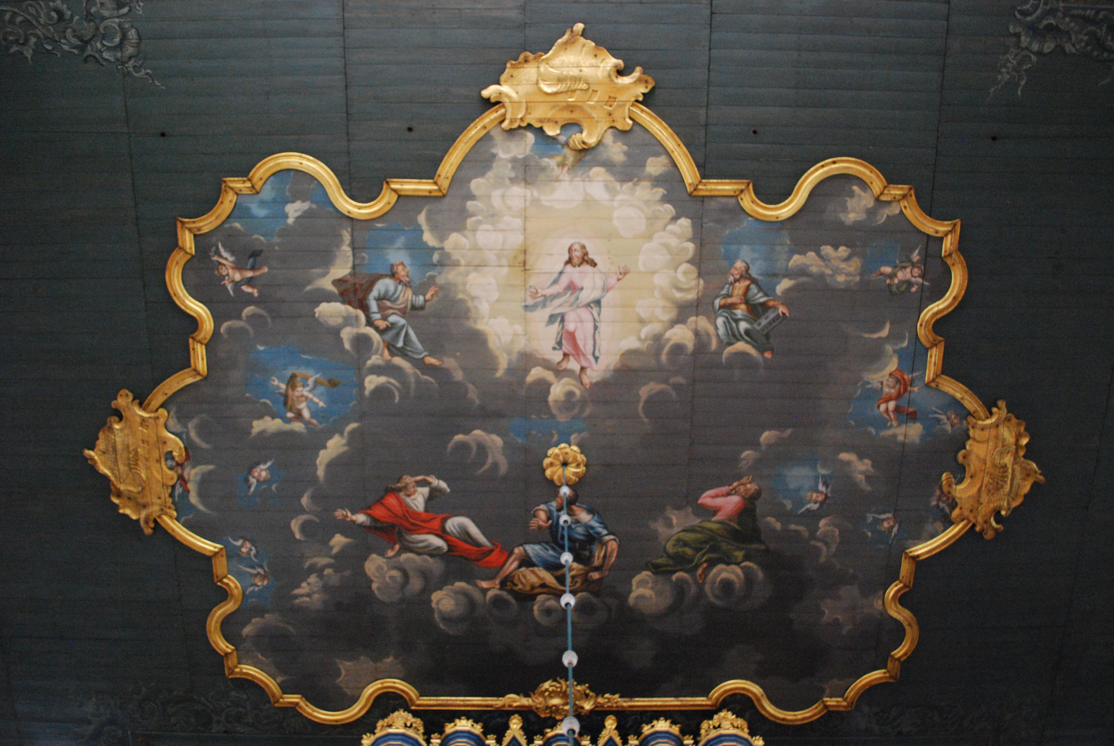 Painting on the Kongsberg church ceiling